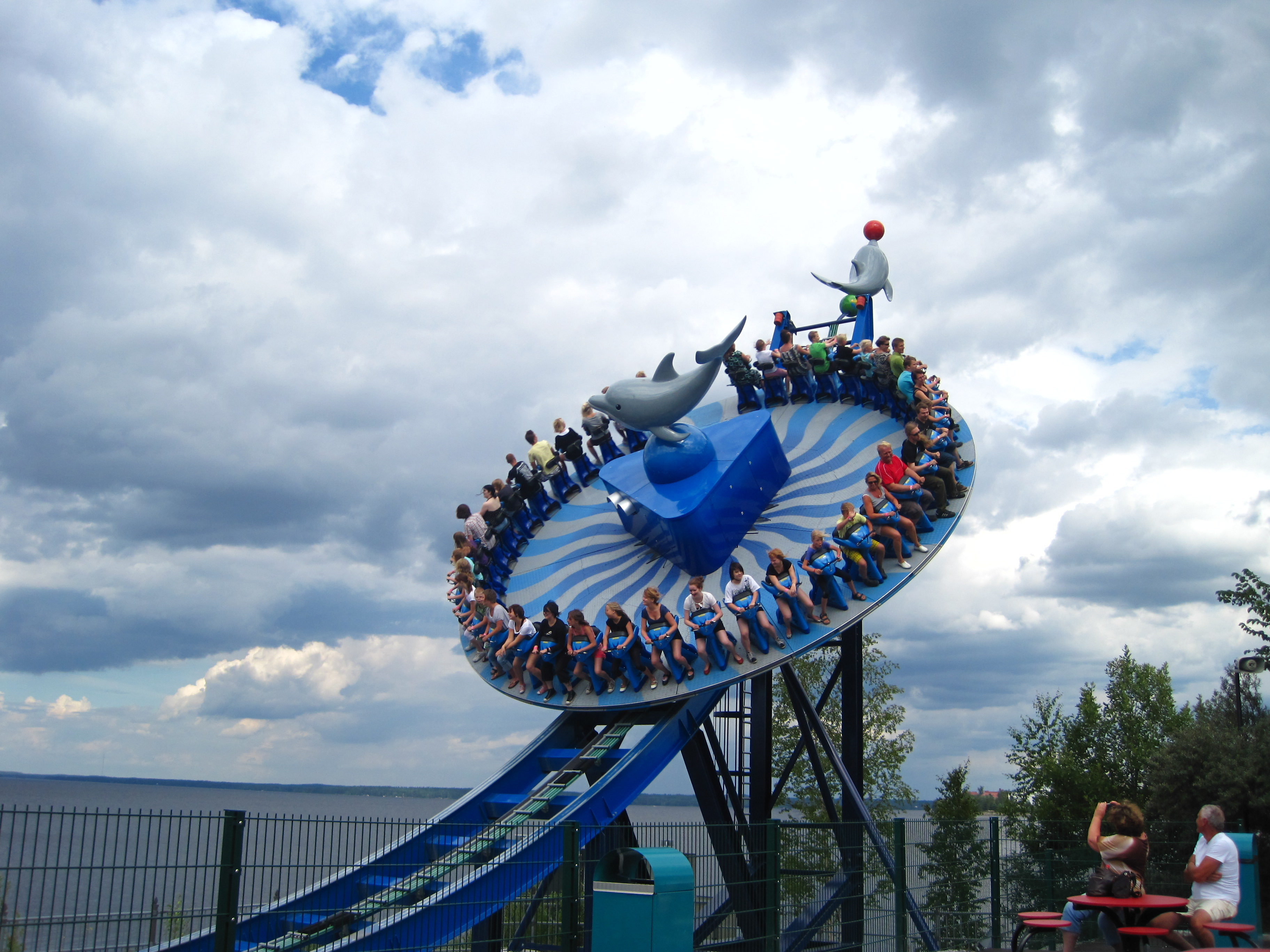 The Italian Antonio Zamperla made Disc-O Coaster called "Tyrsky" in the Särkänniemi amusement park in Tampere, Finland.